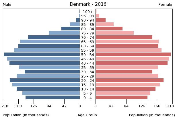 The population pyramid of Denmark illustrates the age and sex structure of population and may provide insights about political and social stability, as well as economic development. The population is distributed along the horizontal axis, with males shown on the left and females on the right. The male and female populations are broken down into 5-year age groups represented as horizontal bars along the vertical axis, with the youngest age groups at the bottom and the oldest at the top. The shape of the population pyramid gradually evolves over time based on fertility, mortality, and international migration trends.